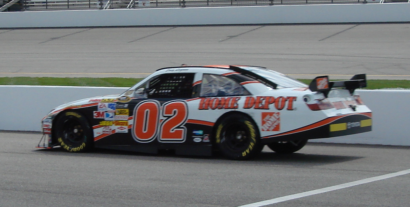 Joey Logano rolls out on track at Richmond International Raceway for his first Sprint Cup Series practice session.